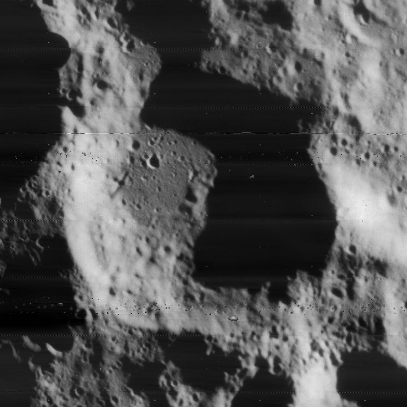 Simpelius, near the south pole of the moon, with north at the top.